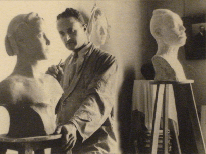 Wahbi Al-Hariri with a Sculpture